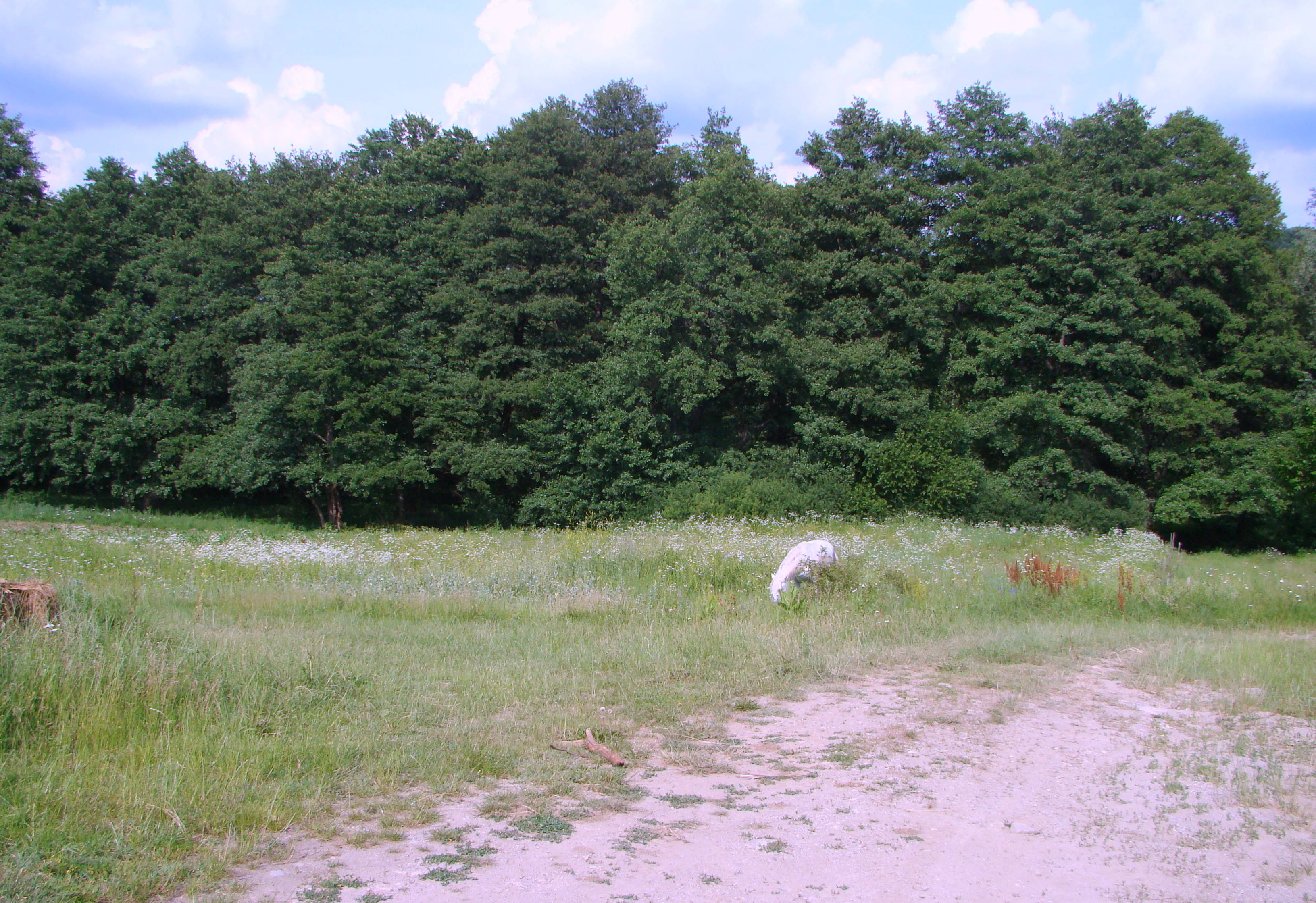 Wooden church in Mușetești-Sârbești, Gorj county, Romania